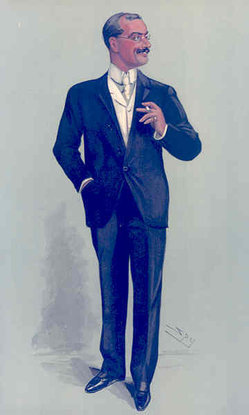 Caricature of Cyril Arthur Pearson. Caption read "Joe's Stage Manager".